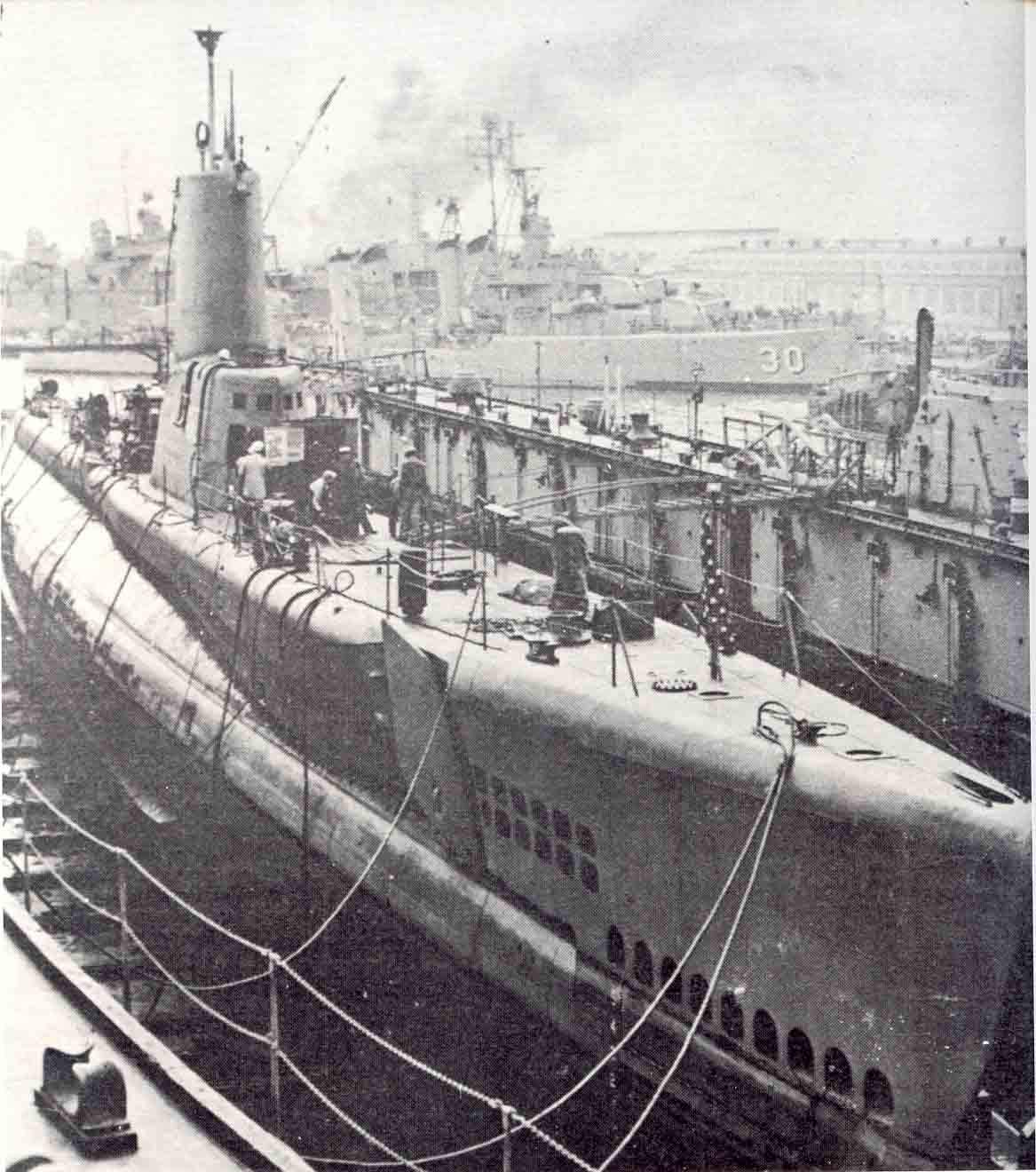 The Medregal (SS-480) was overhauled at the Charleston Shipyard in 1952. The overhaul was completed three weeks ahead of schedlule despite the addition of a Snorkle system.